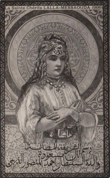 An etching of Lalla Masuda, saint, philanthropist, and political figure of the Saadi period in Morocco. Text in French reads: "La Sainte Chérifa Lalla-Messaouda (999)" Text in Arabic reads: "رسم الشريفة المصانة لال مسعودة والدة السلطان أحمد المنصور الذهبي"